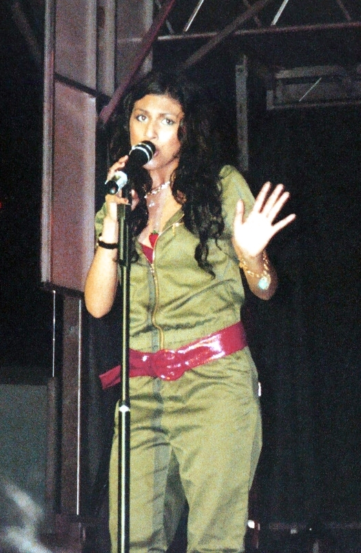 Singer Paula DeAnda performing at the Sports Carnival at Aloha Stadium in March 2007. Photo is retouched; original quality was not great due to poor lighting at the event.